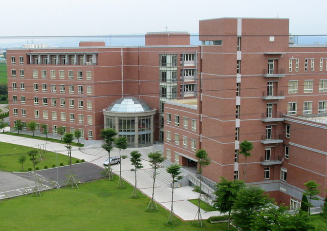 Computer Science Building, Asia University.